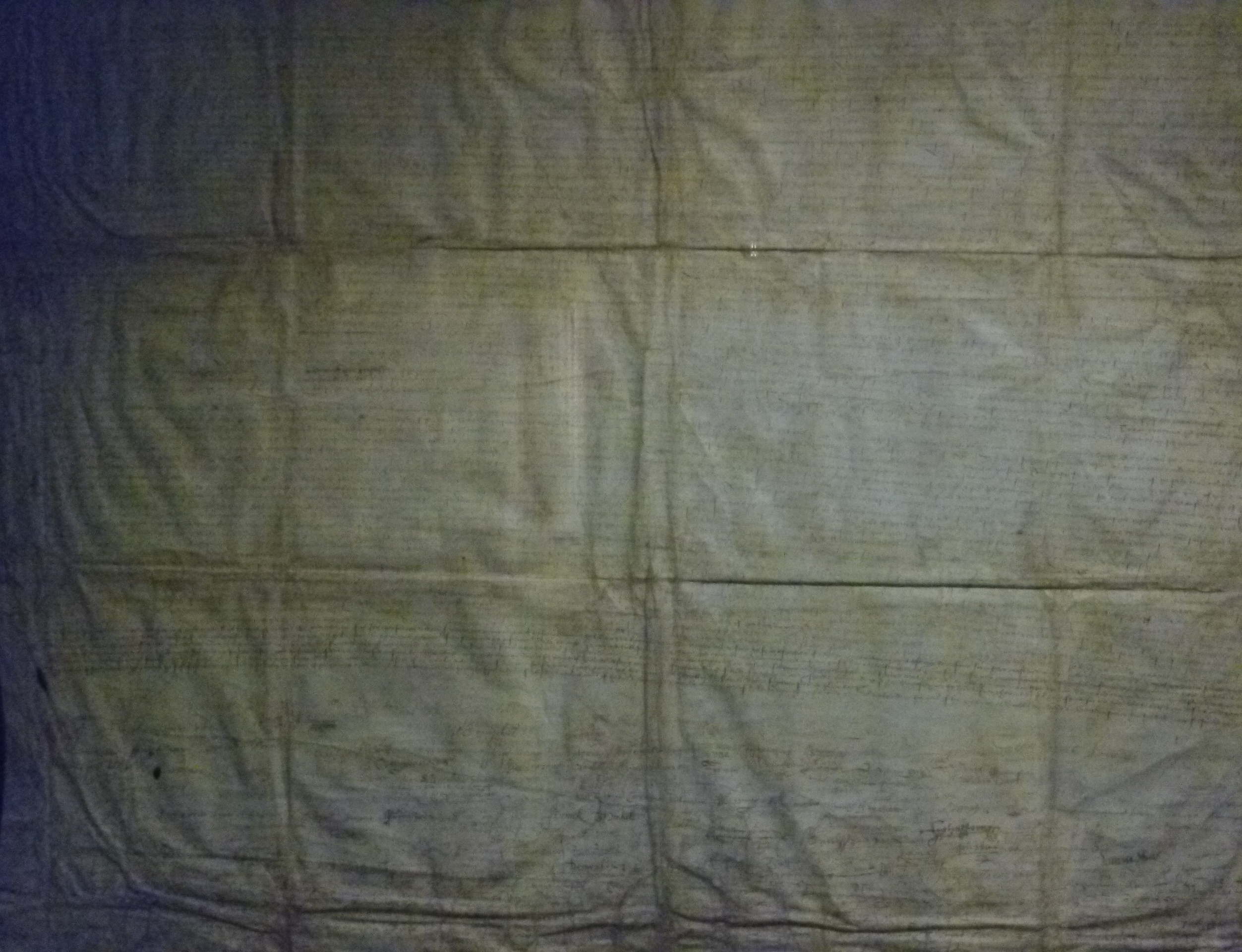 Edinburgh's copy of the National Covenant in the city's Huntly House Museum. "... we promise and swear that we shall to the utmost of our power, with our means and lives, stand to ... the defence and preservation of the foresaid true religion ... against all sorts of persons whatsoever; so that whatsoever shall be done to the least of us for that cause shall be taken as done to us all in general, and to every one of us in particular."